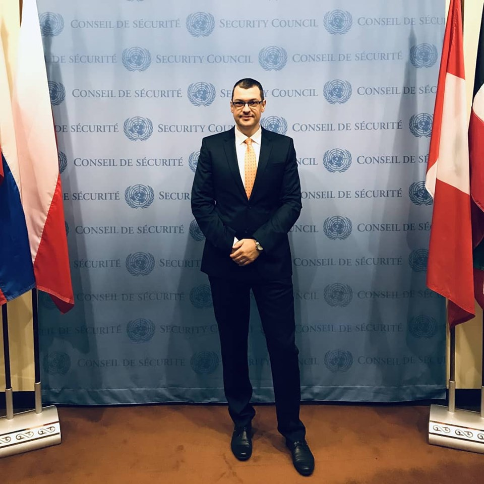 Romanian politician Ovidiu Raețchi at UN Headquarters, New York